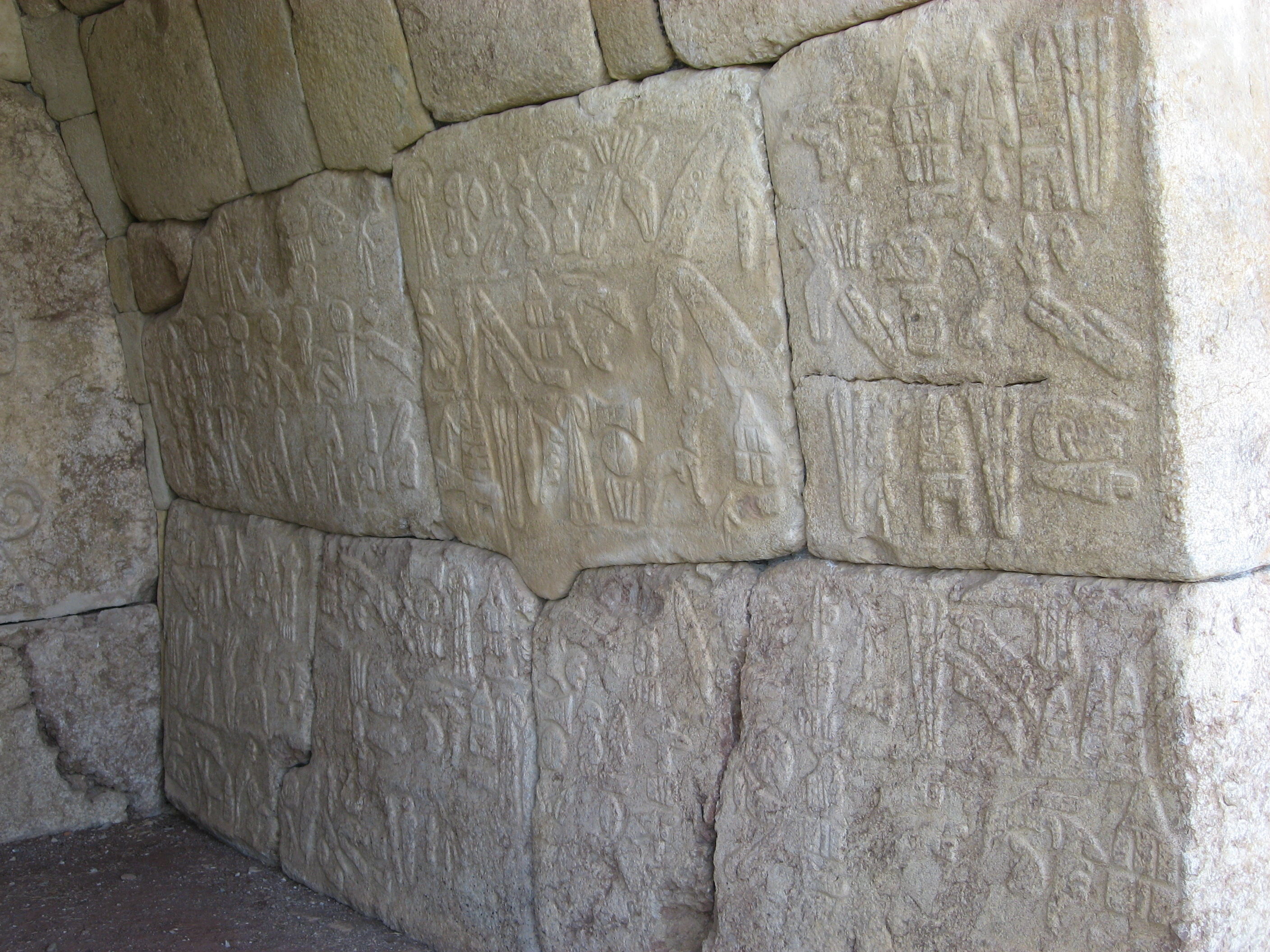 Reliefs and Hieroglyphs from Chamber 2 at Hattusa built and decorated by Suppiluliuma II, the last king of the Hittites. This chamber of Suppiluliuma II is located on the northern corner of "Pond 1" in the Upper City of Hattusa. The pond would have served as a water resevoir for Hattusa. This chamber had to be reconstructed by archaeologists. It was, symbolically, an entryway into the underworld. The inscription describes Suppiluliuma's various conquests (including that of Tarhuntassa) a Hittite city which had formerly served as the political capital of Hatti during the reign of Muwatalli II. This inscription is historically important since it casts some light upon the serious internal instability, perhaps a civil war, which raged within the Hittite Empire under Suppiluliuma II's reign. Suppiluliuma II also records the foundation of certain cities and his sacrifices to the Hittite gods in this chamber.